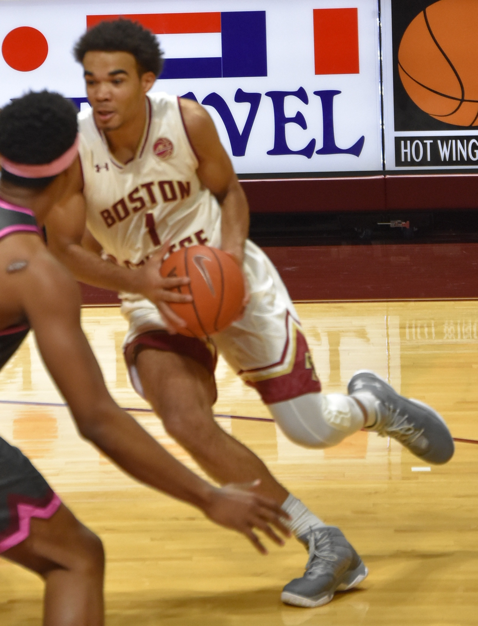 Jerome Robinson tries to split the Hokie Defenders